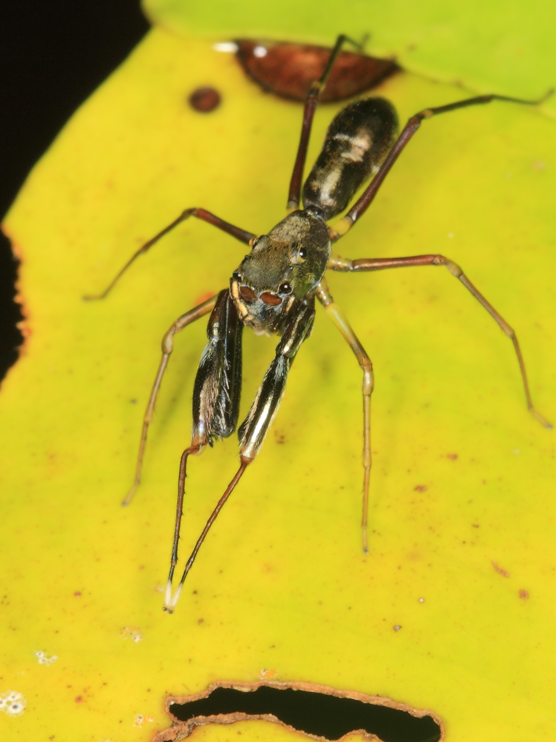 Phylum: Arthropoda LATREILLE, 1829 (arthropods, Gliederfüßer) Subphylum: Chelicerata Class: Arachnida CUVIER, 1812 (arachnids, Spinnentiere) Subclass: Micrura Infraclass: Megoperculata Order: Araneae CLERCK, 1757 (spiders, Webspinnen) Suborder: Araneomorphae (Echte Webspinnen) Superfamily: Salticoidea Family:Salticidae BLACKWALL, 1841 (jumping spiders, Springspinnen) Subfamily: Dioleniae (or Agoriinae?) Genus: Diolenius THORELL, 1870 Diolenius phrynoides WALCKENAER, 1837 , ♂ [det. D.E. Hill, 2011, based on photos] taxonomical info at: Indonesia, W-Papua, Sorong, Raja Ampat: Kri Island (vic. Pulau Mansuar), 60m asl., 30.12.2010 (IMG_8229)